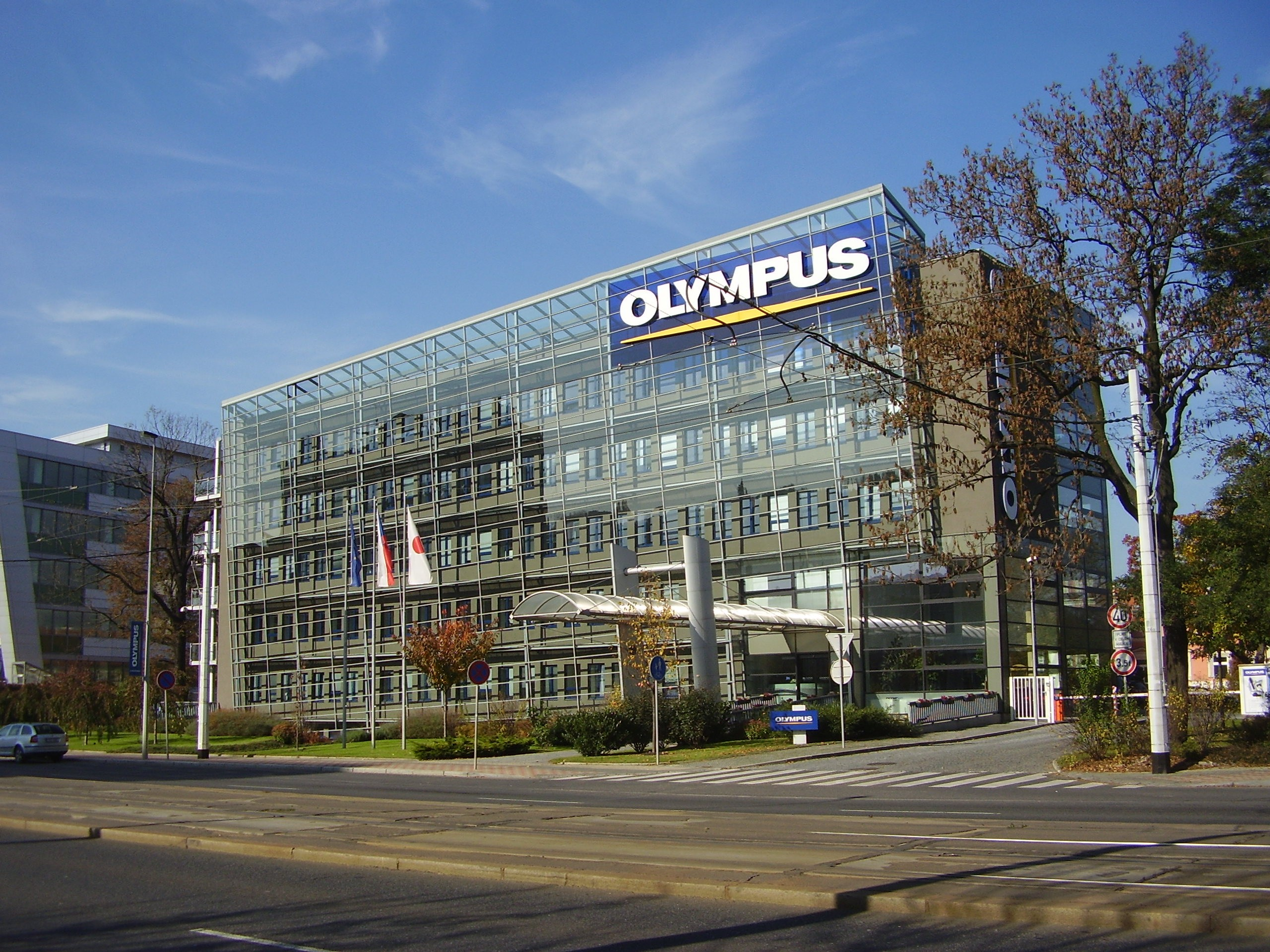 Prague-Vokovice, Evropská 176, building of Olympus Česká republika